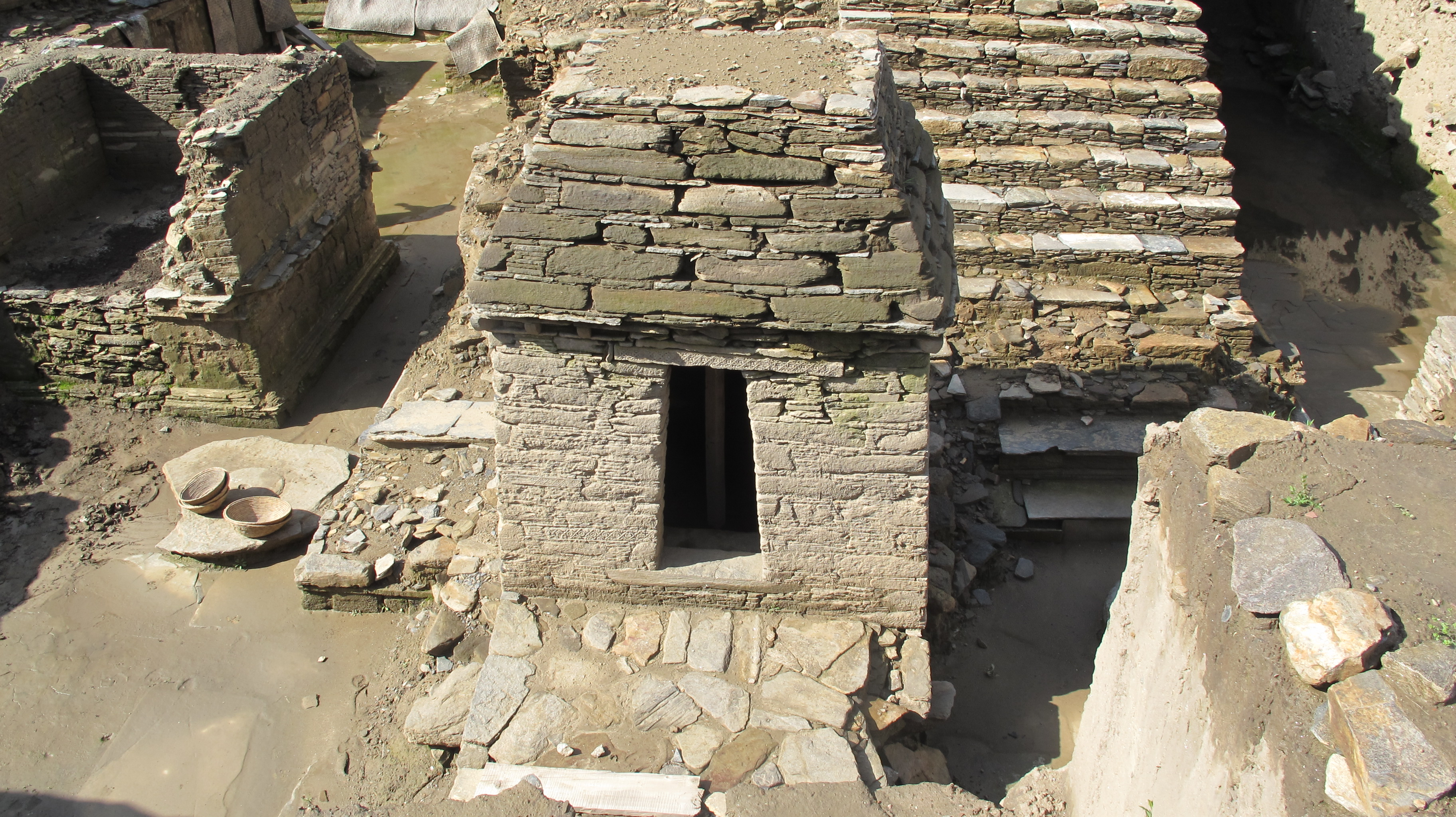 Amlukdara stupa This is a photo of a monument in Pakistan identified as the KPK-77